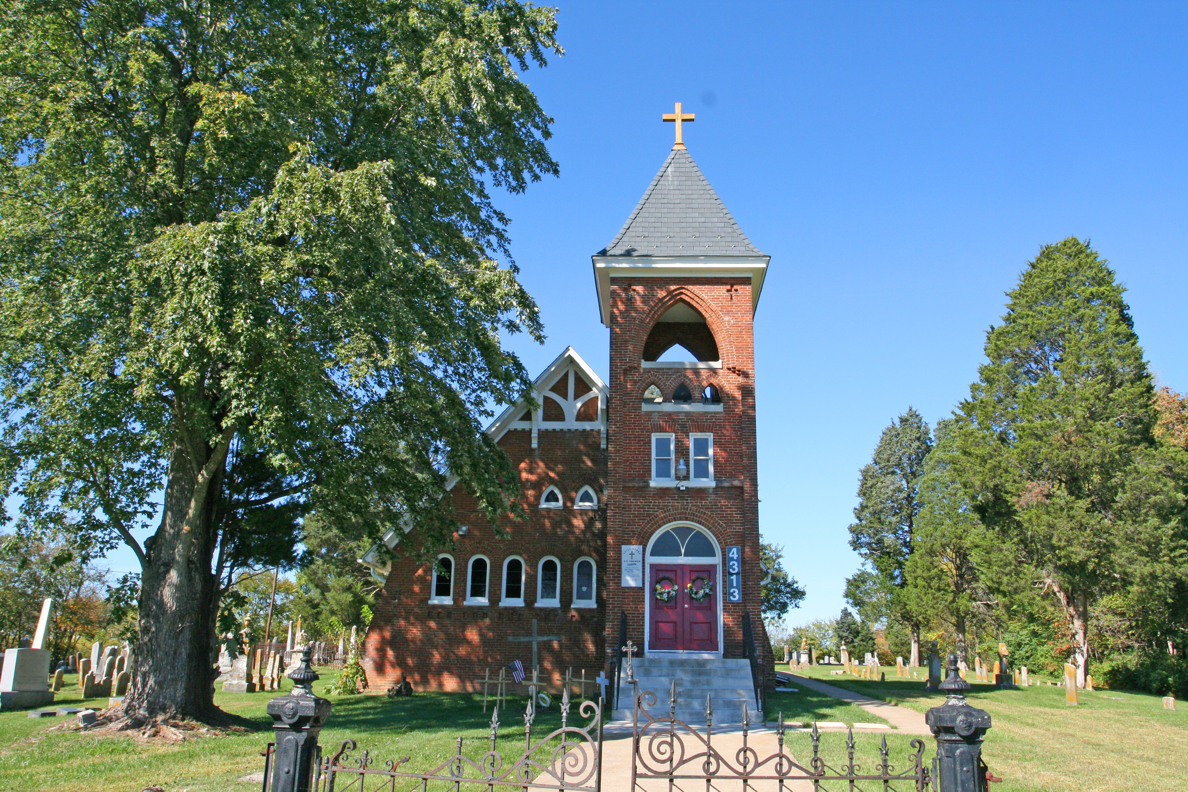 The historic St. Mark's Episcopal Church in Petersville, Maryland.